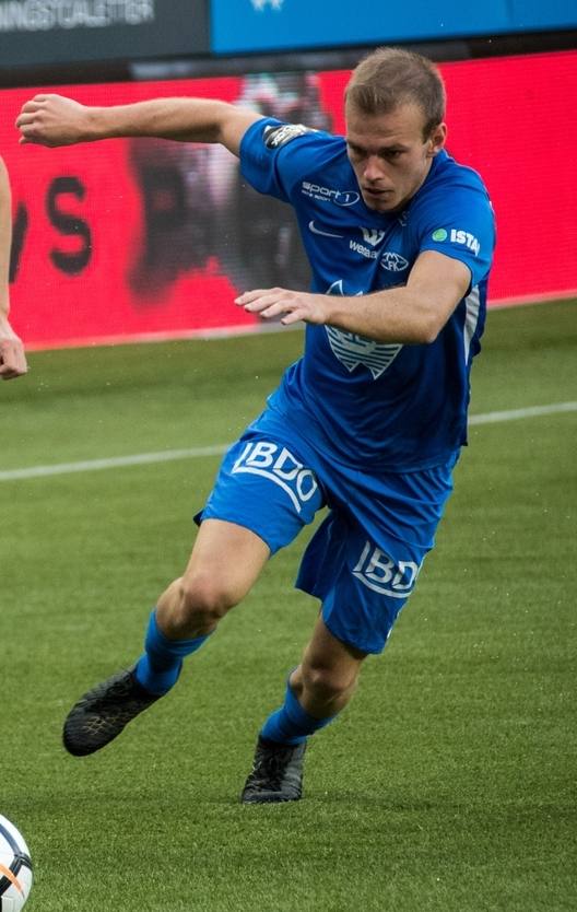 30.08.2018. Норвегия, Мольде, «Мольде». Лига Европы УЕФА 2018/19, раунд плей-офф, «Мольде» — «Зенит».